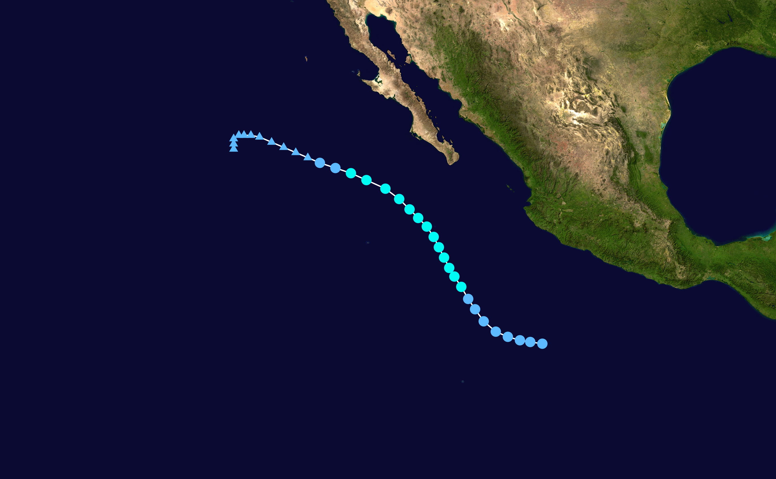 Track map of Tropical Storm Dalila of the 2007 Pacific hurricane season. The points show the location of the storm at 6-hour intervals. The colour represents the storm's maximum sustained wind speeds as classified in the Saffir–Simpson scale (see below), and the shape of the data points represent the nature of the storm, according to the legend below. Saffir–Simpson scale Tropical depression≤38 mph≤62 km/h Category 3111–129 mph178–208 km/h Tropical storm39–73 mph63–118 km/h Category 4130–156 mph209–251 km/h Category 174–95 mph119–153 km/h Category 5≥157 mph≥252 km/h Category 296–110 mph154–177 km/h Unknown Storm type Tropical cyclone Subtropical cyclone Extratropical cyclone / Remnant low / Tropical disturbance / Monsoon depression